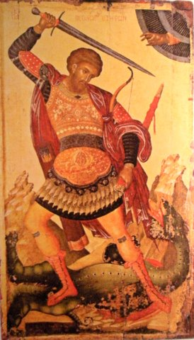 Saint Theodore Tiro, from Candia, Second quarter of the 15th century, egg tempera on wood, priming on textile, 122.8 x 70 cm